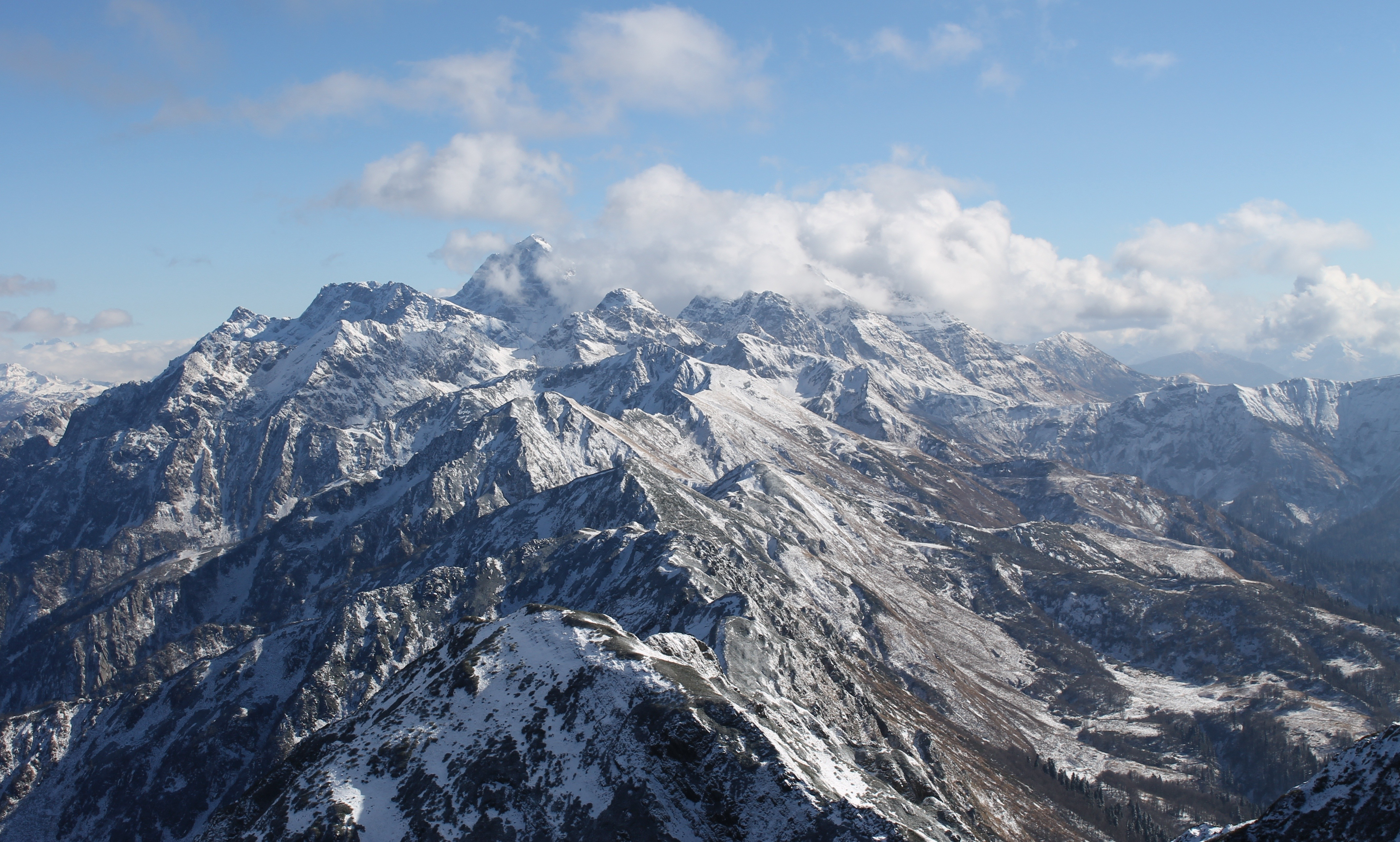 View of Mount Agepsta and Turyi gory (Tur Mountains) from the top of Kamennyi Stolb, Aibga Ridge.